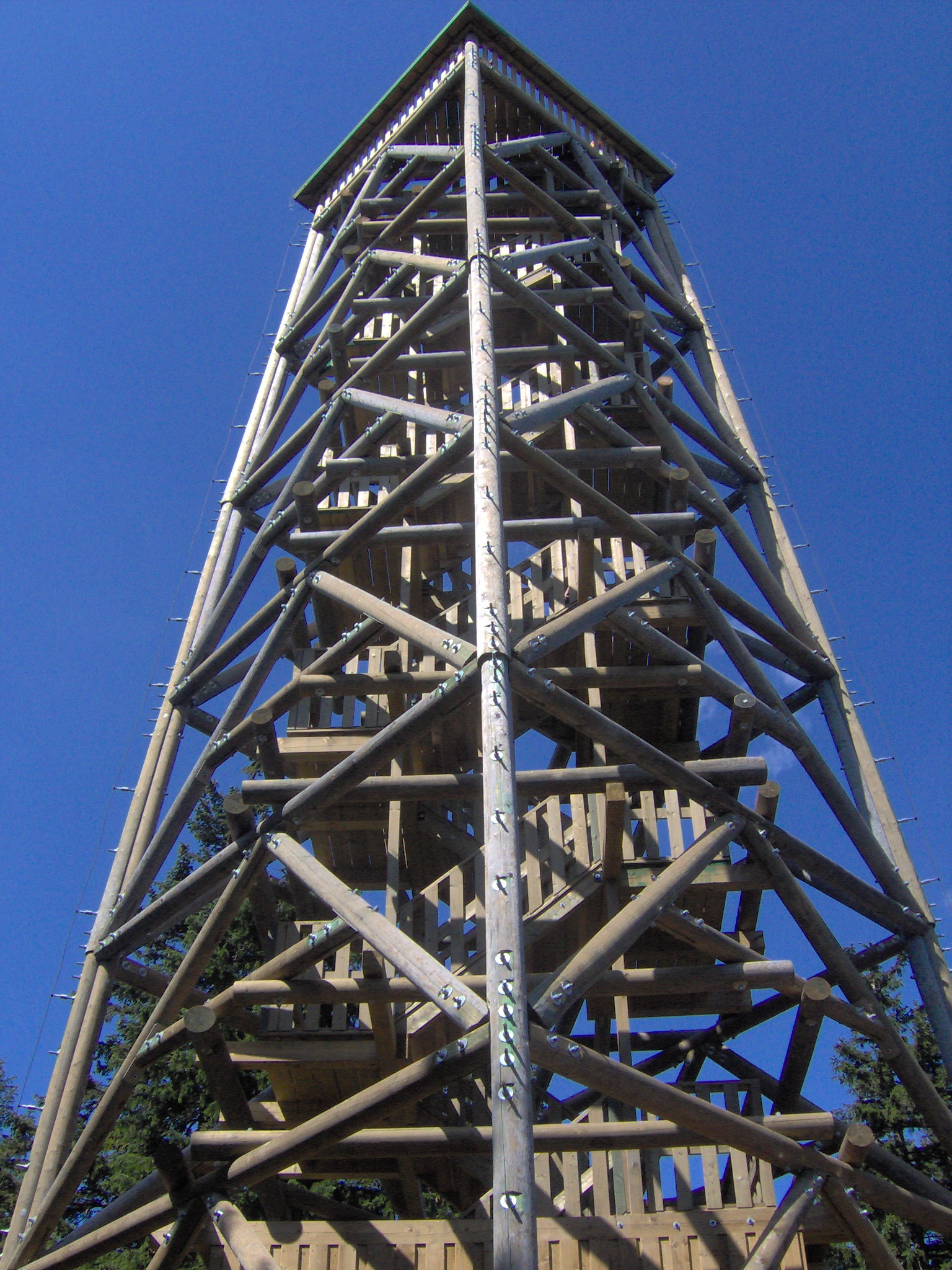 Watchtower on peak of mountain Boubín, Bohemian Forest Česky: Základna rozhledny na Boubíně, Šumava